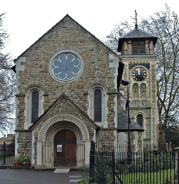 St Pancras Church. A very old church. A large amount of the graveyard was destroyed when the railways were built.